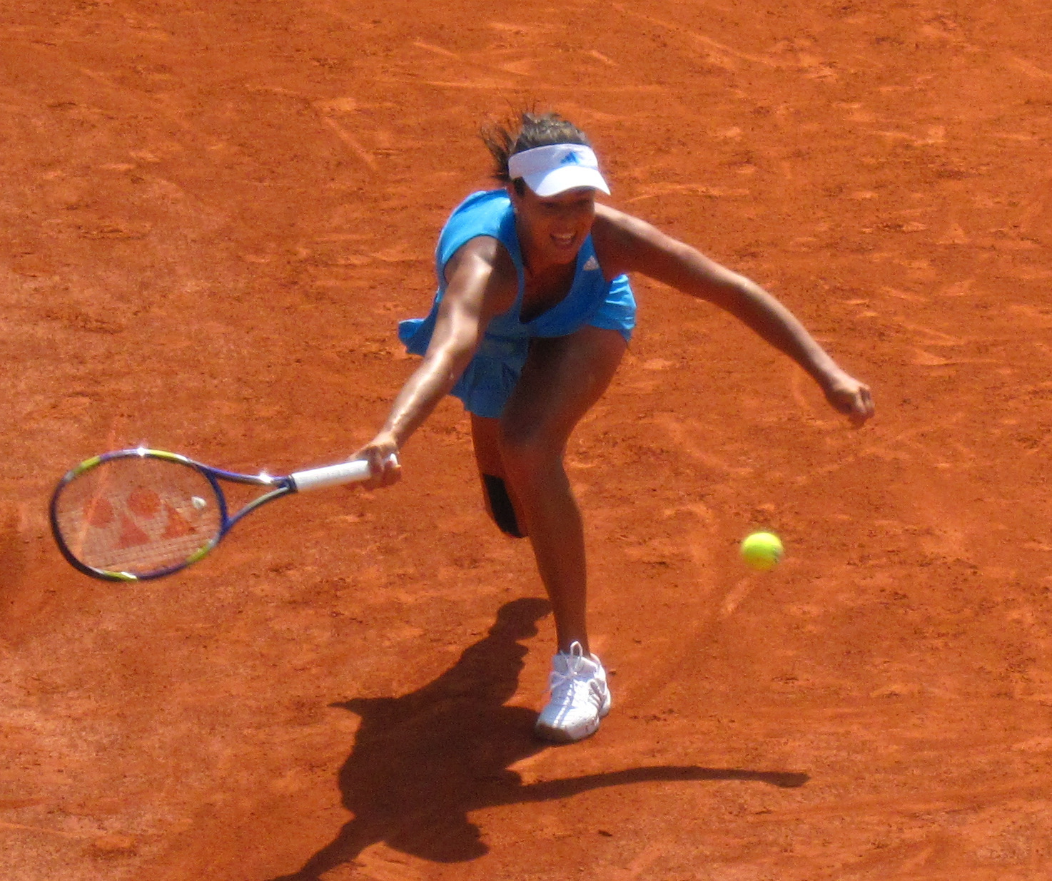 Ana Ivanović at 2009 Roland Garros, Paris, France